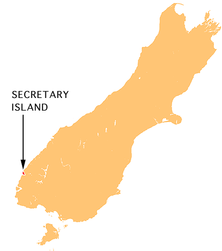 Location map of Secretary Island, New Zealand